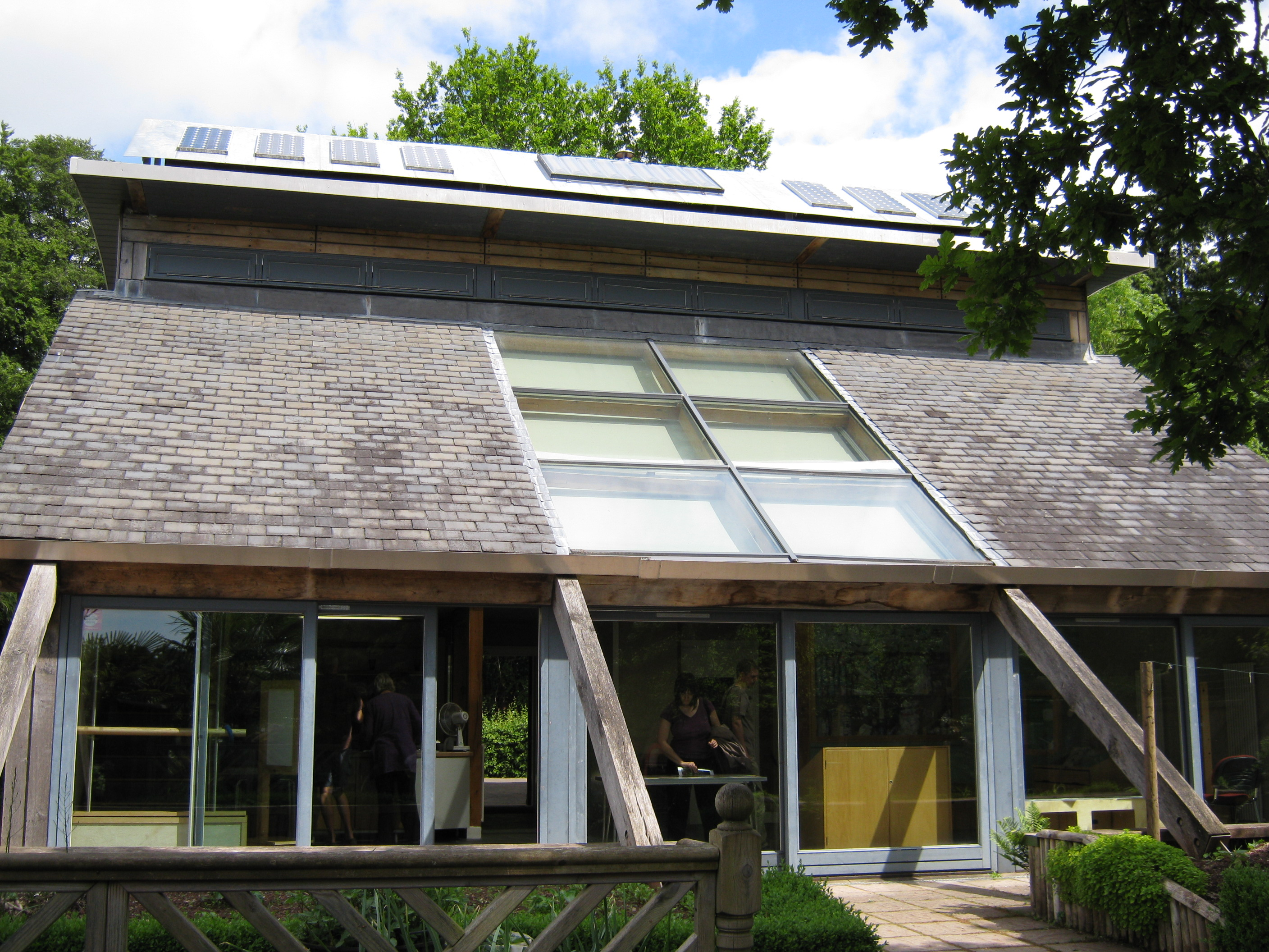 The 8 photovoltaic cells convert sunlight into energy to provide up to 800 watts of electricity, enough to light this eco-house at St Fagans, UK.